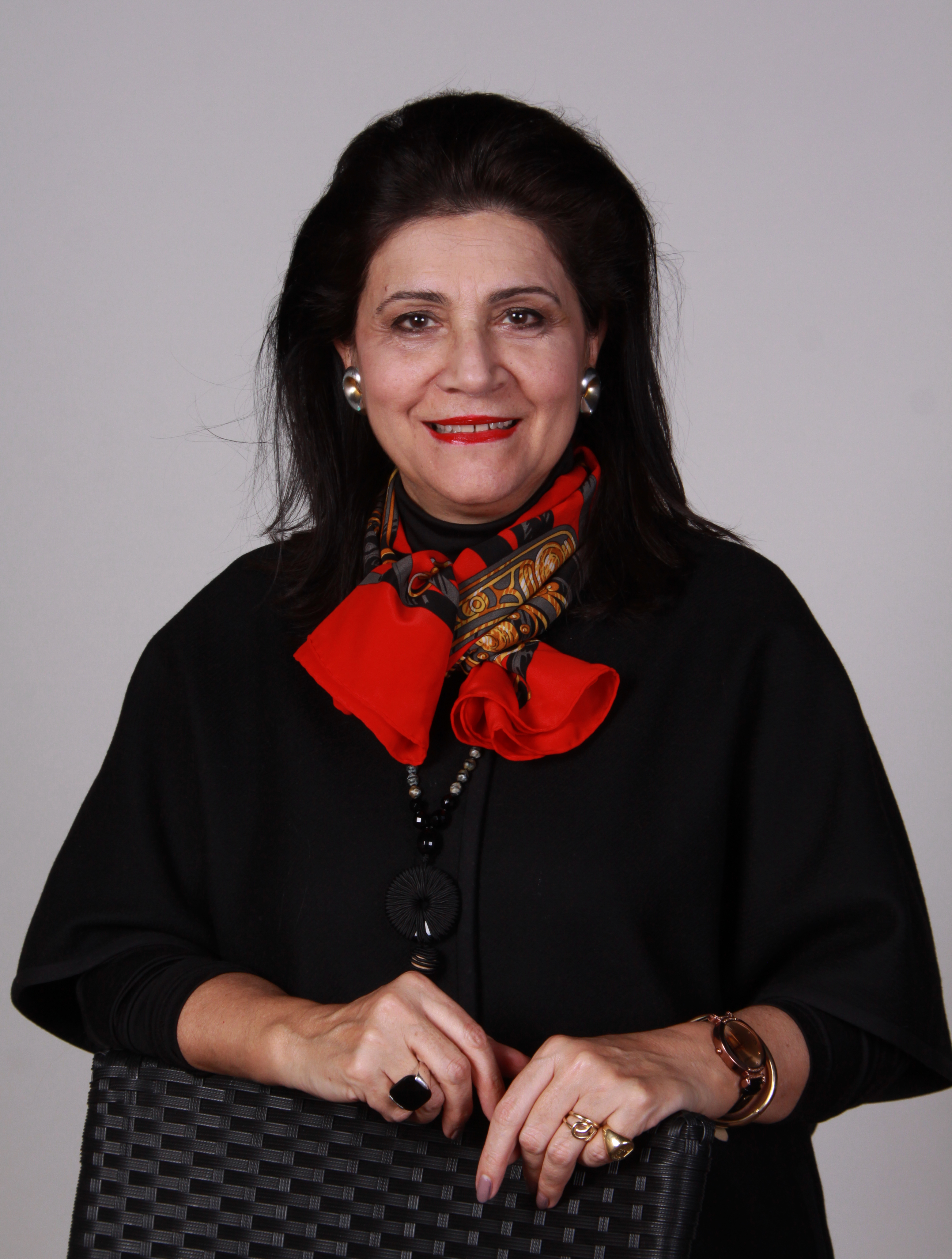 Rodi Kratsa, Member of the European Parliament